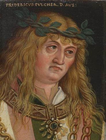 Frederick II, son of Otto the Merry